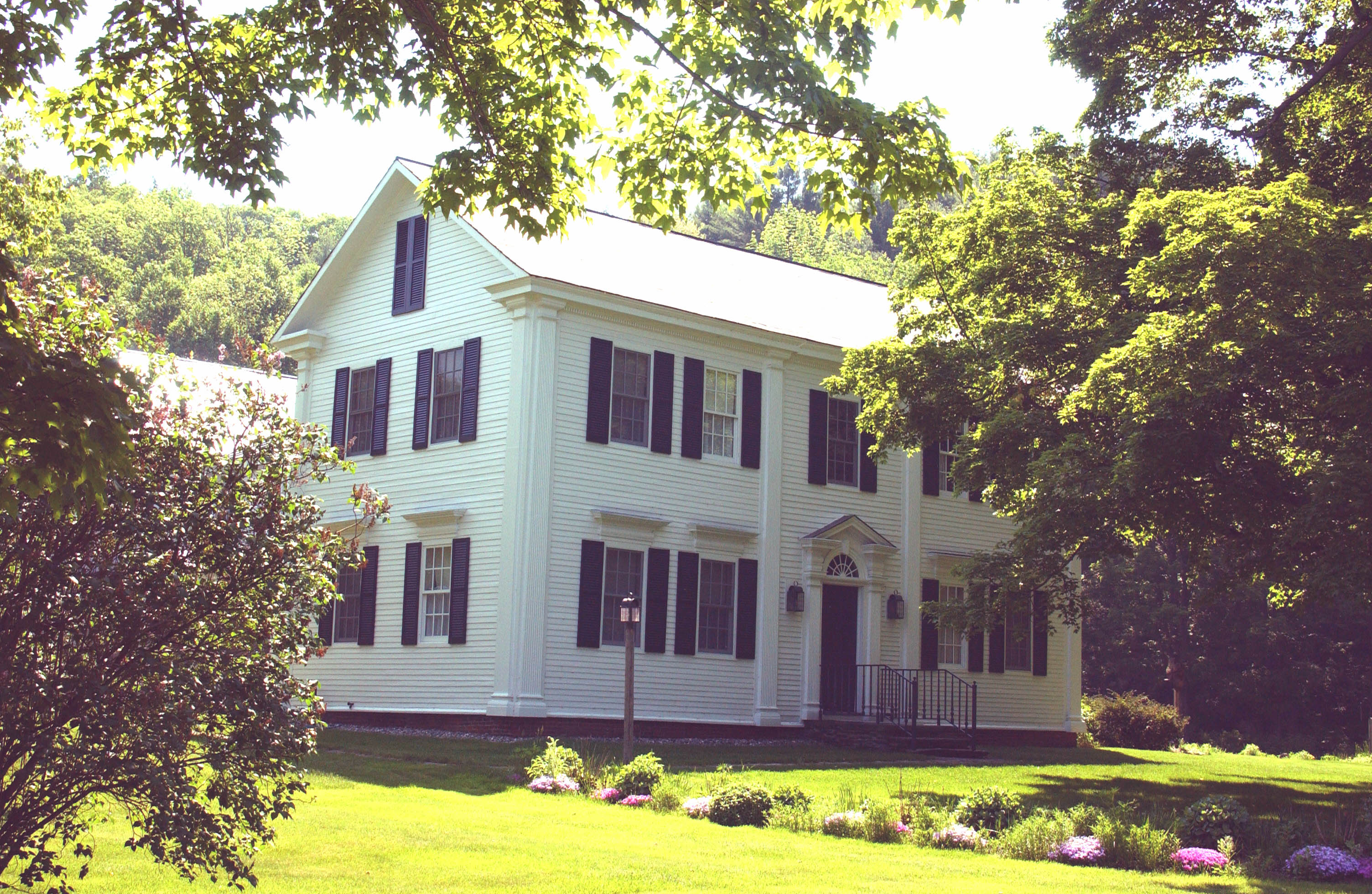 BUILT IN 1790; IT IS THE ONLY KNOWN BUILDING RELATED TO SALMON P. CHASE. U.S. SENATOR AND CHIEF JUSTICE OF THE SUPREME COURT.